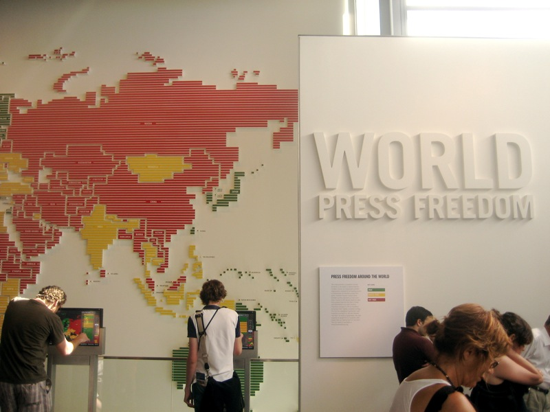 Note the giant red area in East Asia. It worries me Hong Kong isn't green...